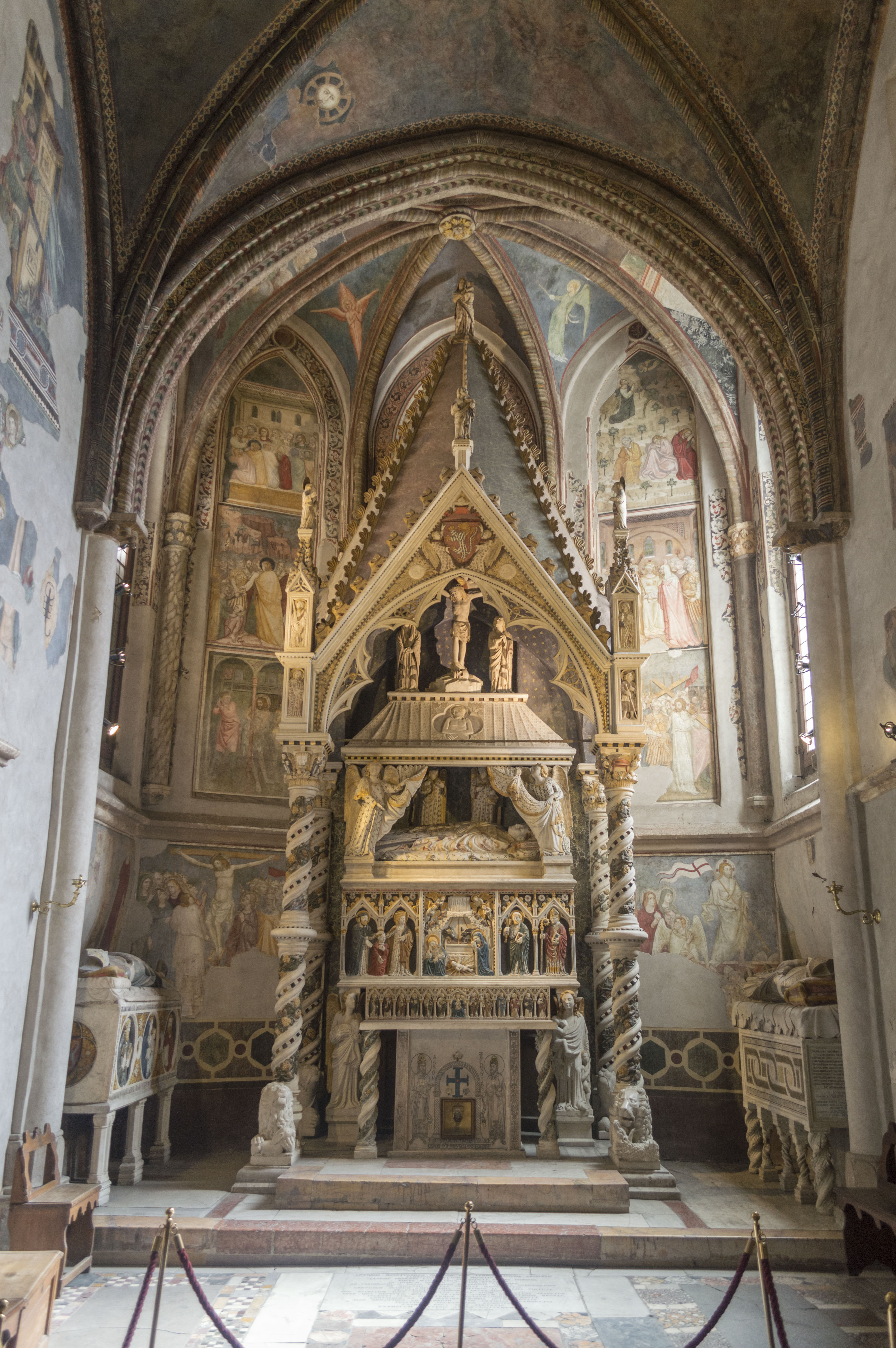 Cappella Capece Minutolo in Naples Cathedral